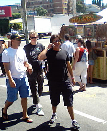 Steve Perry, 2006.